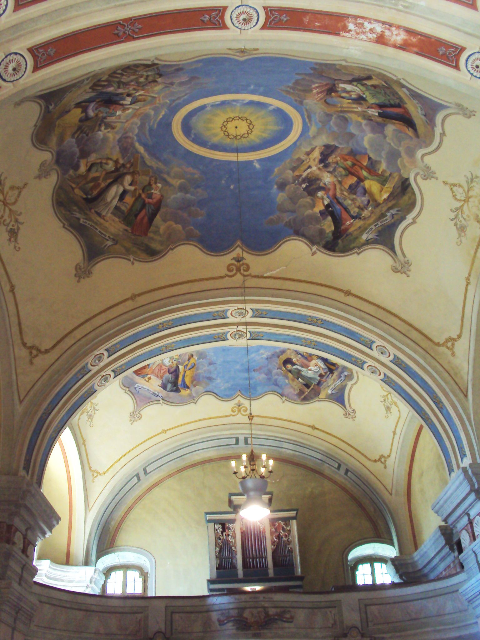 Church of the Assumption of Mary in Nova Raca, Croatia